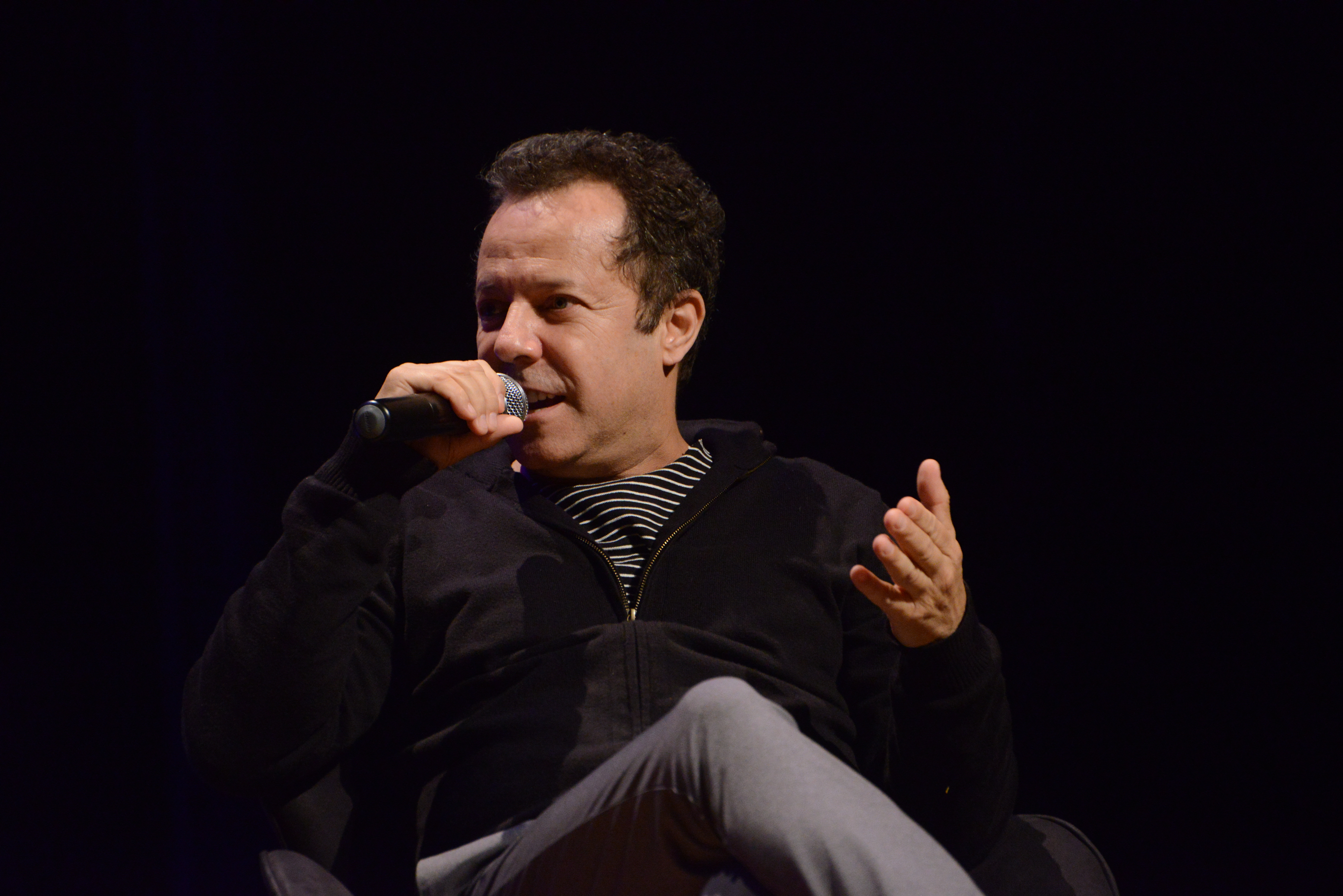 Vik Muniz Conference of Frontiers of Thought May 14, 2018